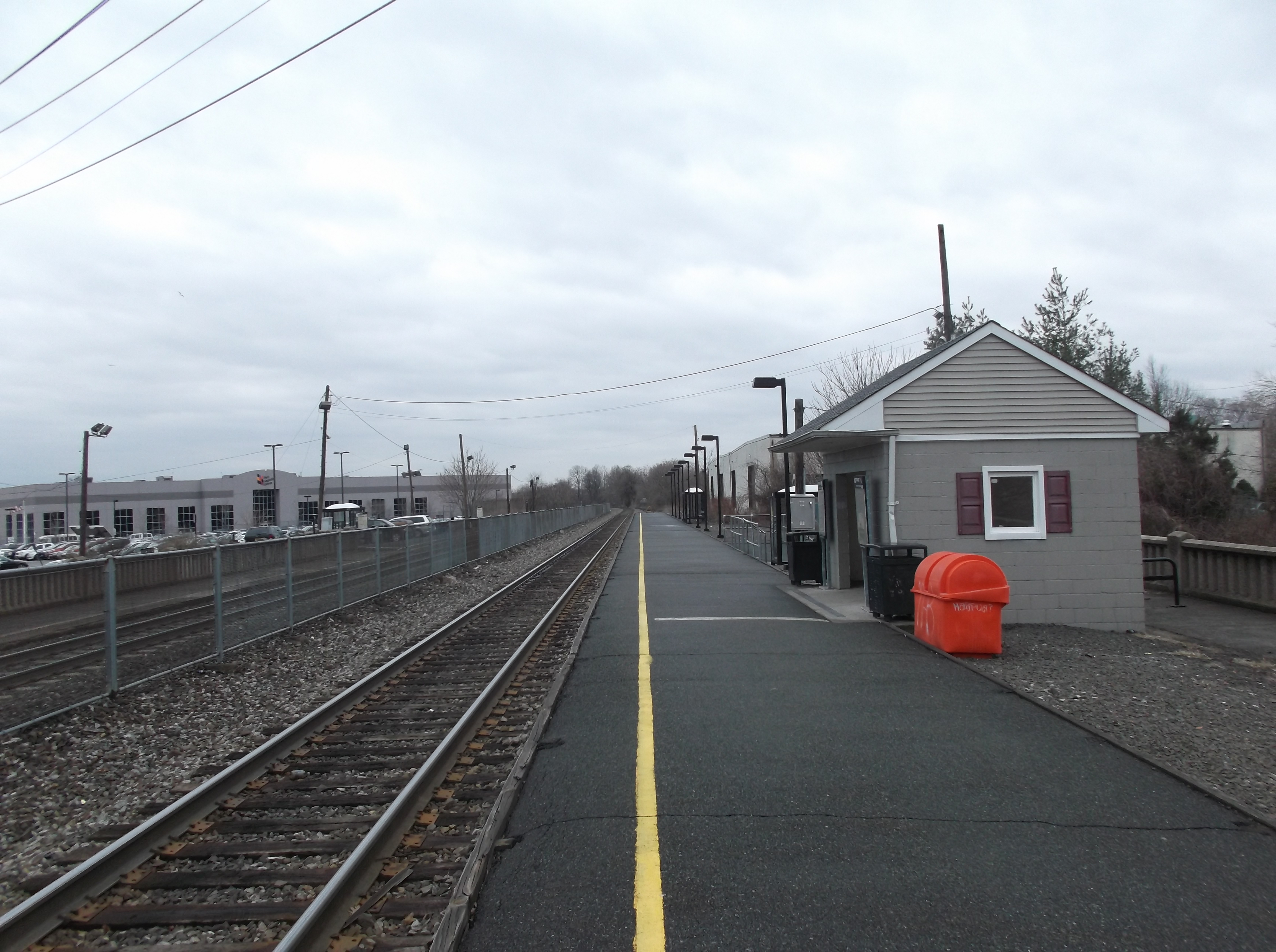 Delawanna Station on the New Jersey Transit Main Line in March 2014.